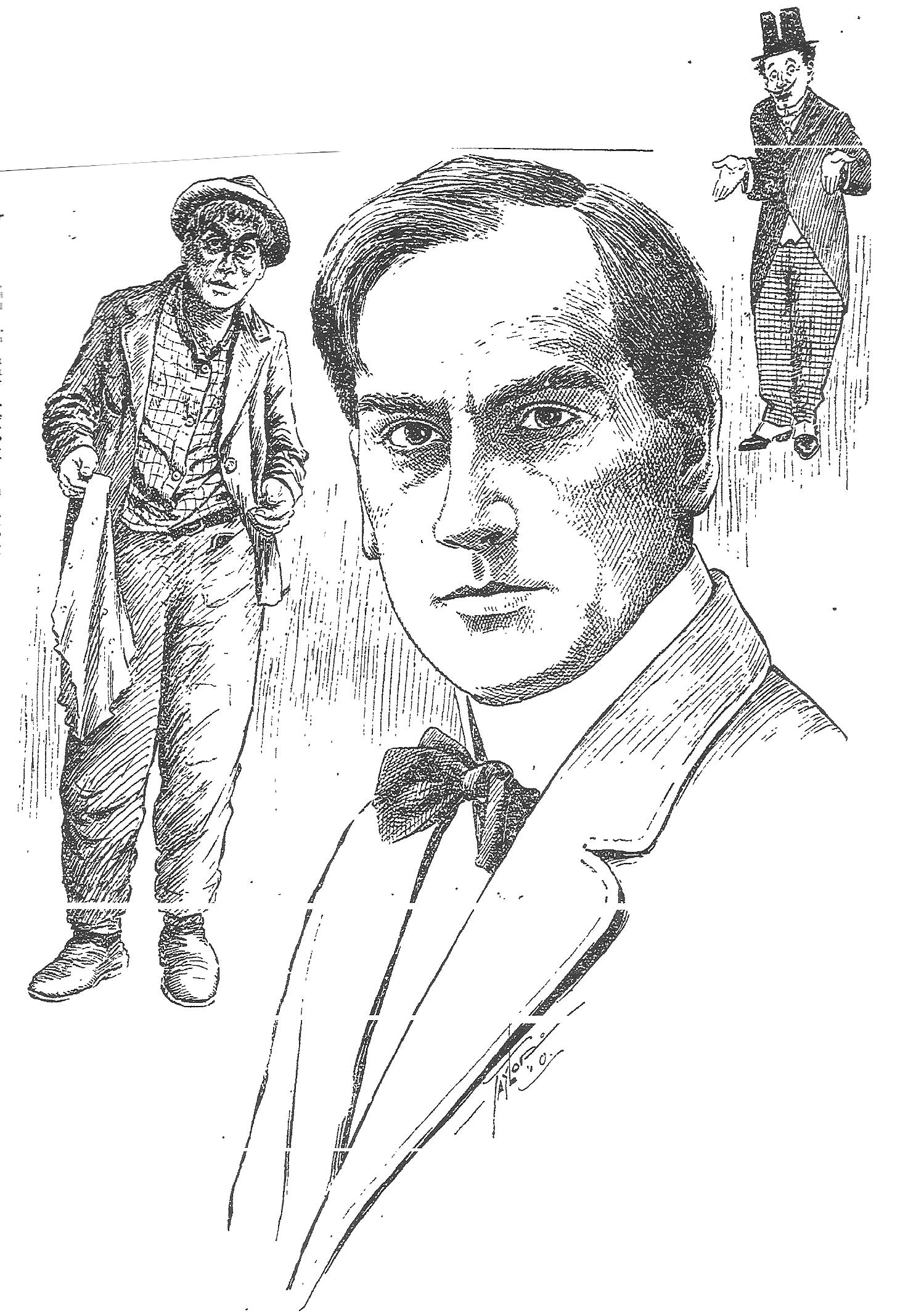 Image of George Beban